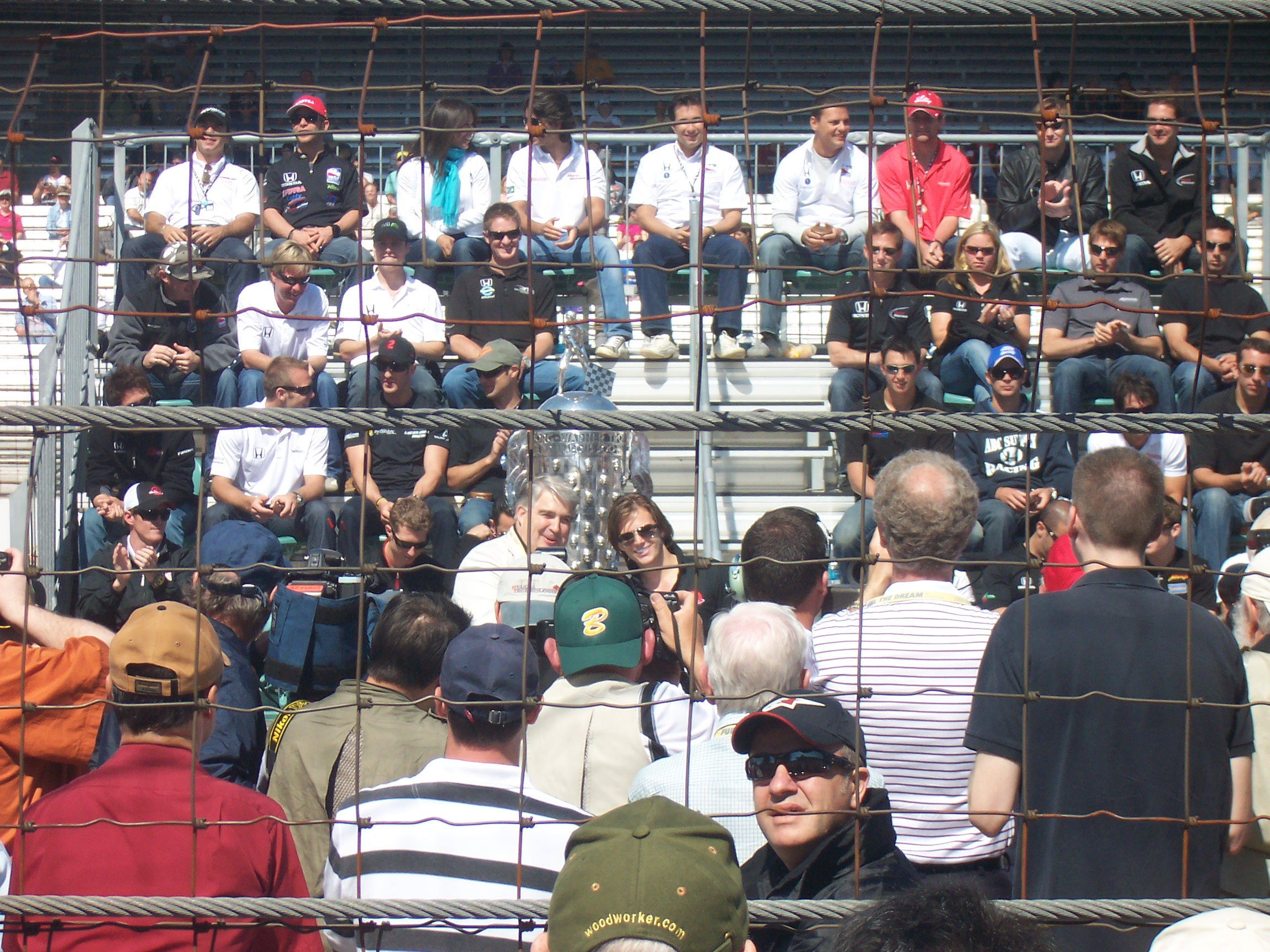 2008 Indianapolis 500 Public Drivers Meeting